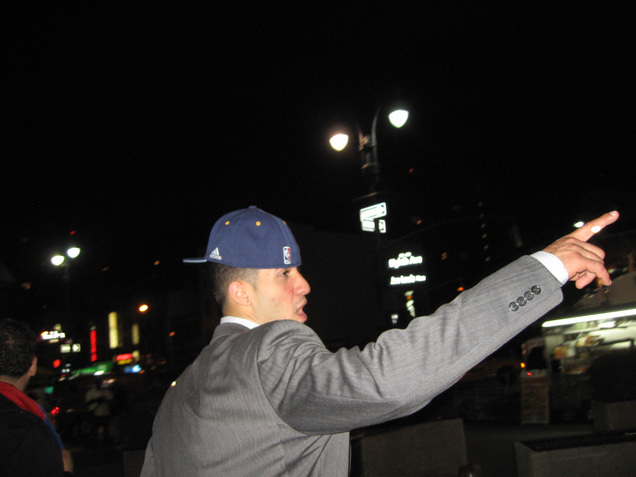 Greivis Vásquez